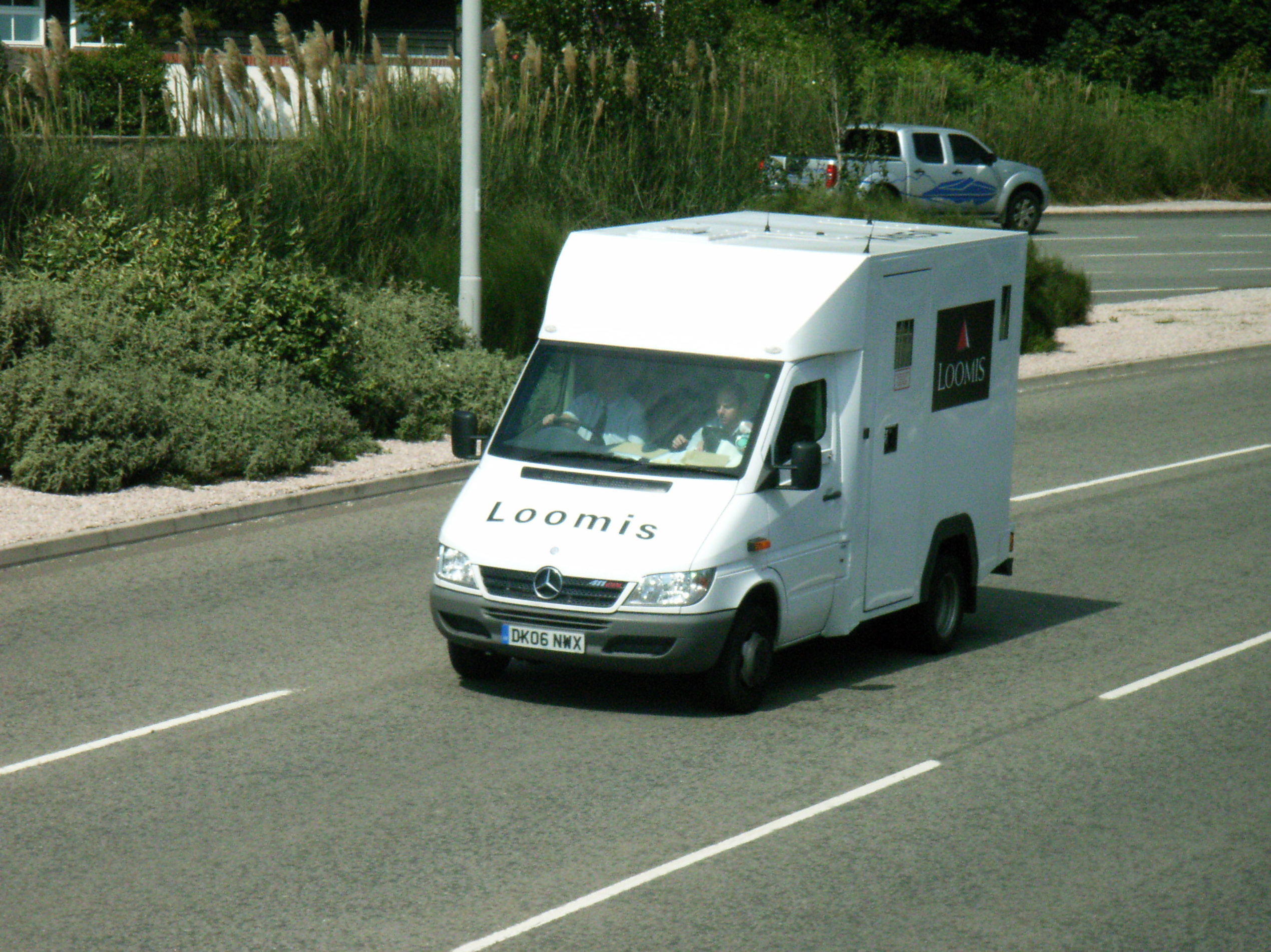 DK06NWX MERCEDES SPRINTER 411 CDI C/C SPECIALLY FITTED VAN 2148cc (26/06/2006) DIESEL